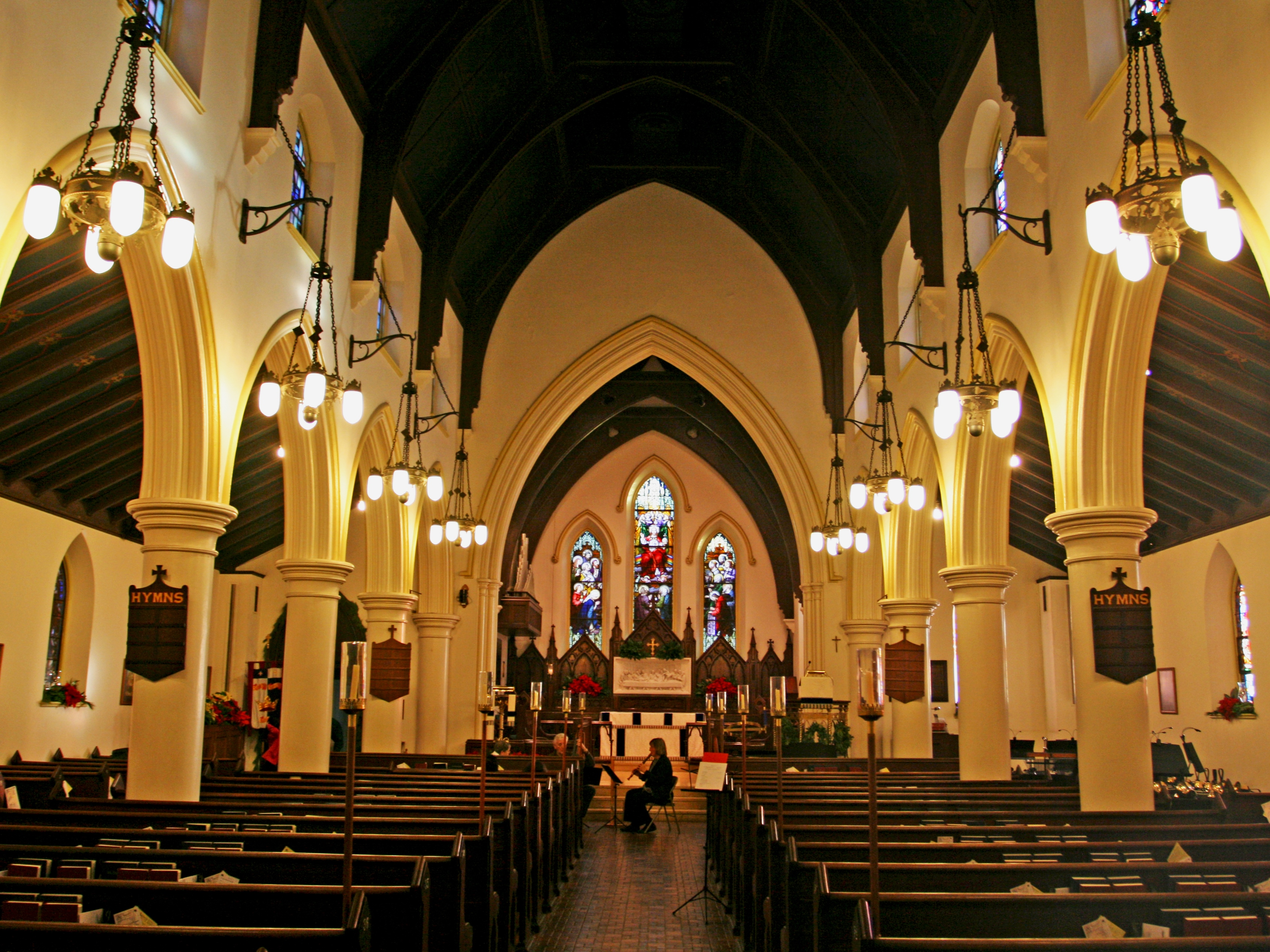 The interior of the 1855 All Saints Episcopal Church in Frederick, Maryland.